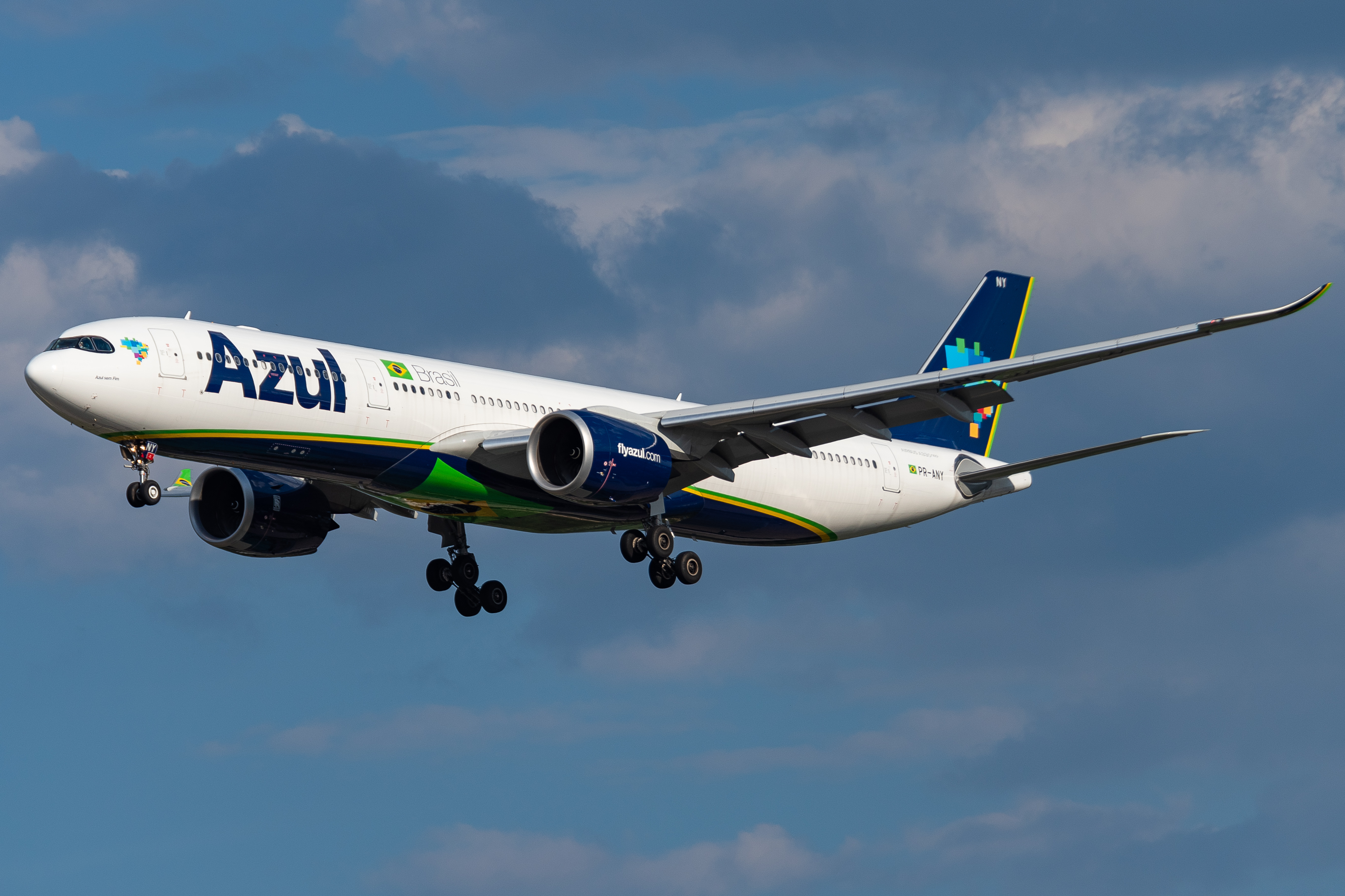 AZU9712 from Amsterdam. First visit of Azul's A339 to China? Bem vindo!